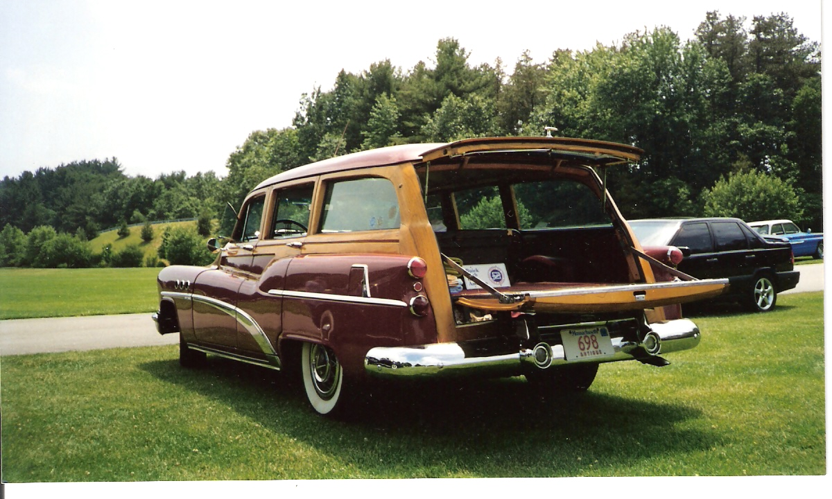 1953 Buick Super Estate Wagon I photographed in Merrimack, New Hampshire.